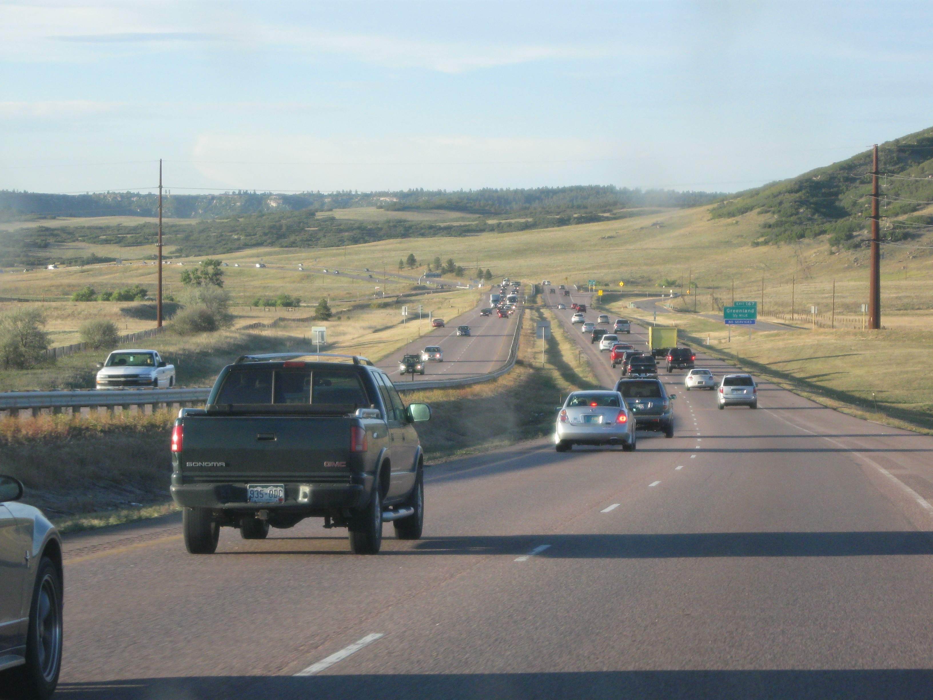 This is Interstate Highway 25 in Colorado. This photo was taken looking north. It was taken about a mile south of the exit for Greenland, Colorado, near mile marker 166. September 2011.